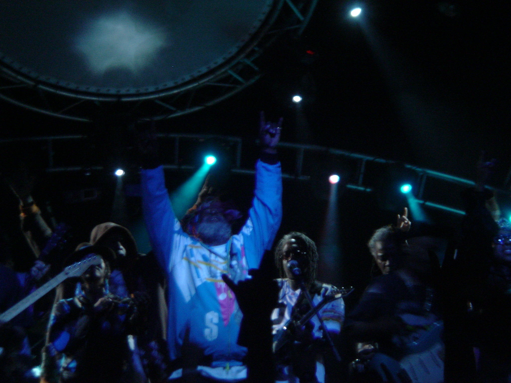 P-Funk All Stars at Vault 360 in Long Beach